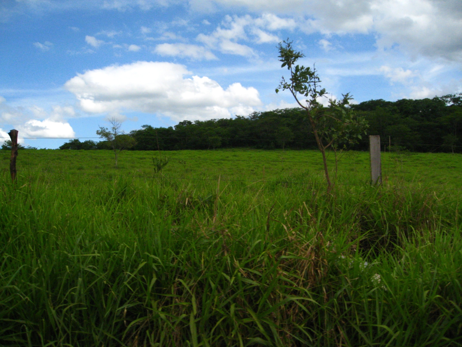 Farm in Montes Claros, Minas Gerais, Brazil.